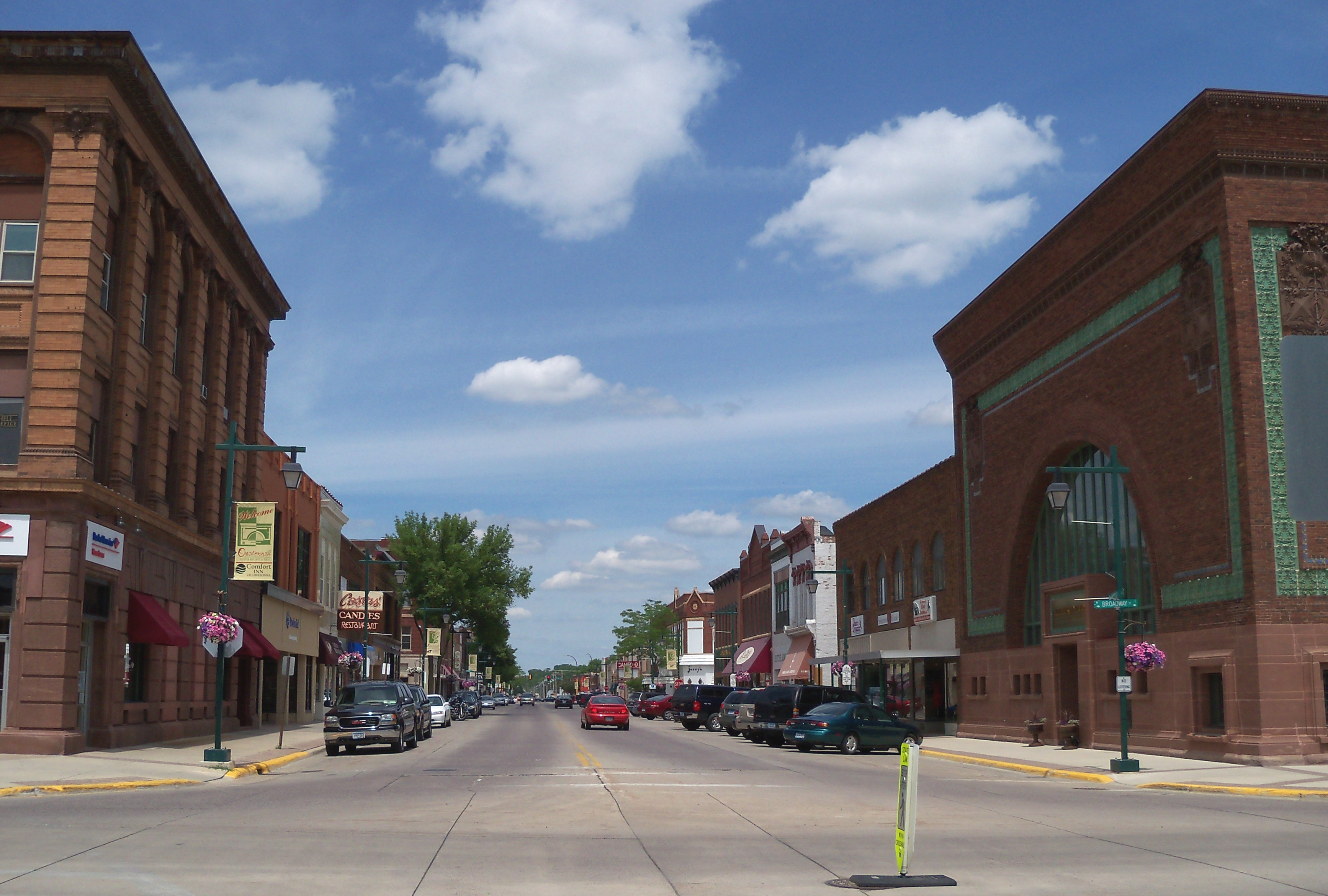 Buildings in downtown Owatonna, Minnesota, USA.